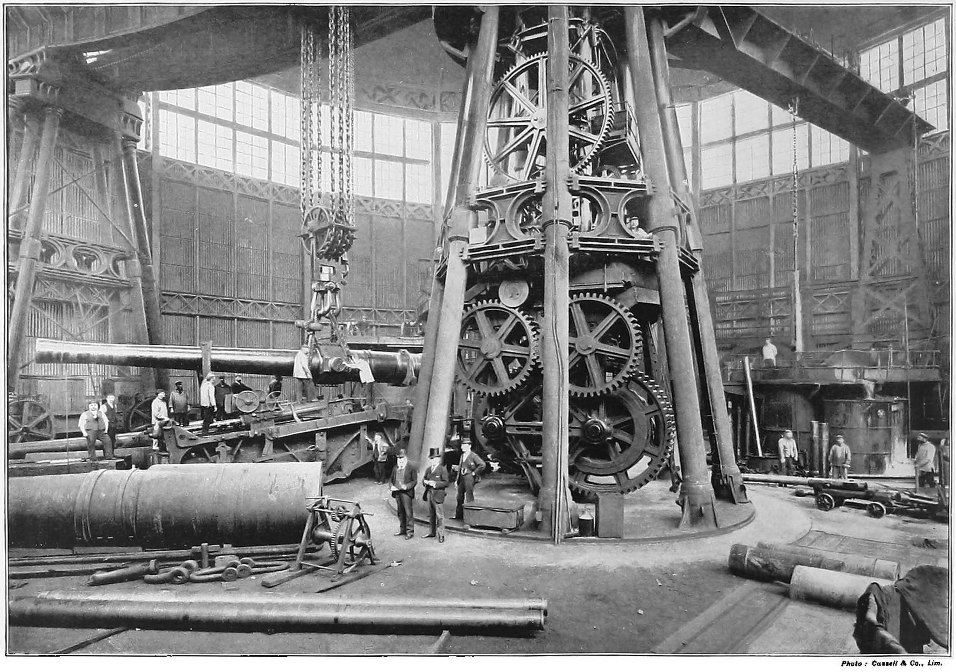 THE GREAT CRANE AT WOOLWICH. Woolwich, as all the world knows, is the great Arsenal of the British Government. It lies in what was once the marsh-land on the right bank of the Thames between Greenwich and Gravesend. At Woolwich the majority of the heavy guns for the Navy and the light guns for the Army are manufactured ; and an enormous quantiiy of miscellaneous war material of every kind is also made and stored in the Arsenal. We here see one of the heavy breech-loading guns being lowered into its place on its carriage by the most powerful steam crane in the Arsenal. The monster 110-ton guns, which lor a brief period were in favour for naval purposes, are now no longer constructed, but guns of 67 tons and 50 tons are constantly handled by this powerful machine.